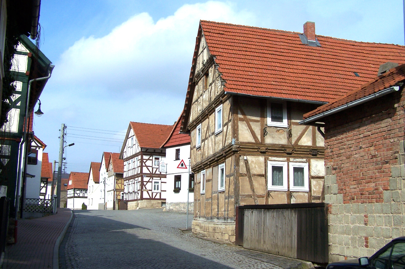 In the village Ifta - around Kasseler Straße.